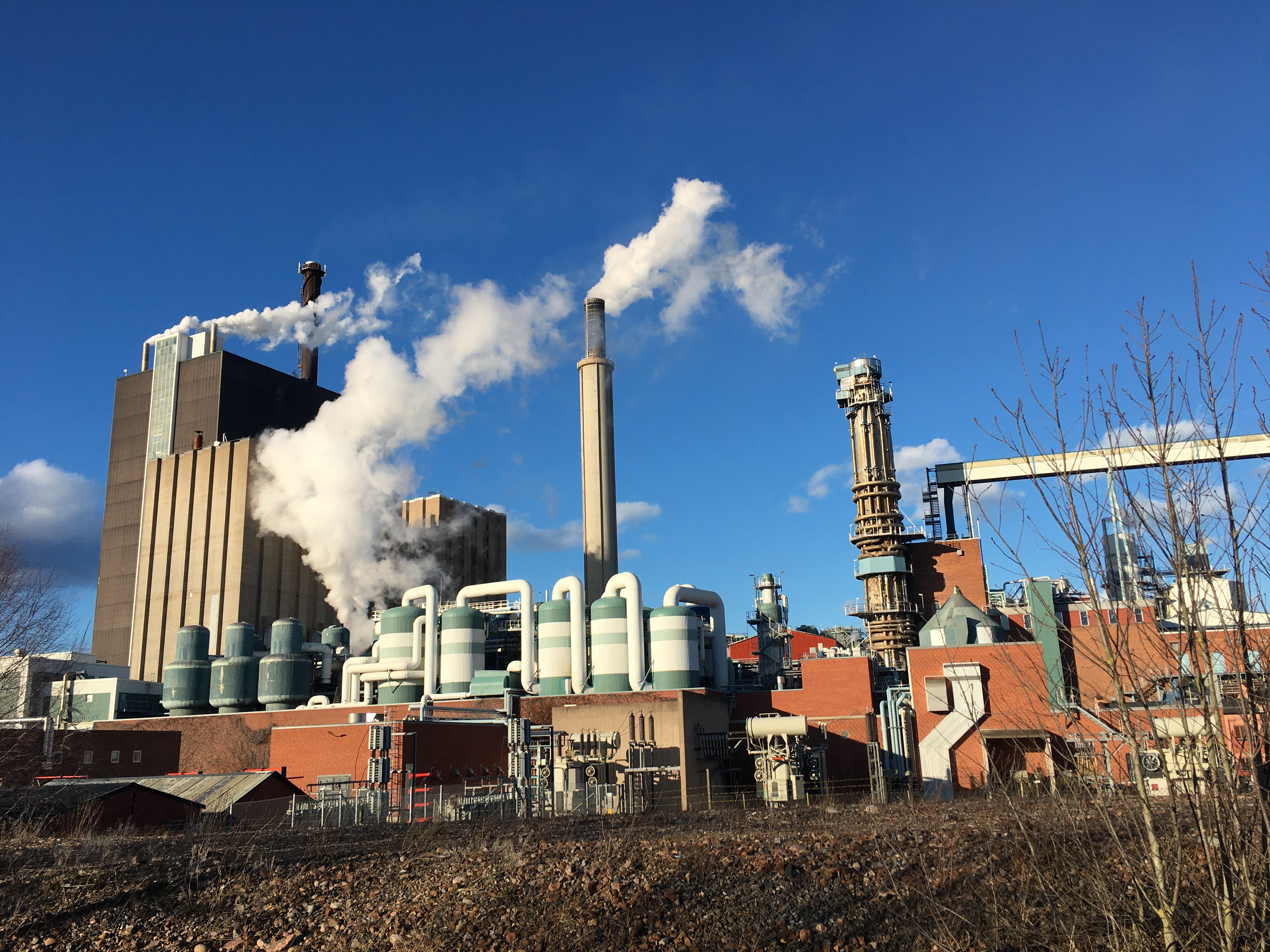 Skutskär Pulp Mill in spring 2020. Close up photograph.